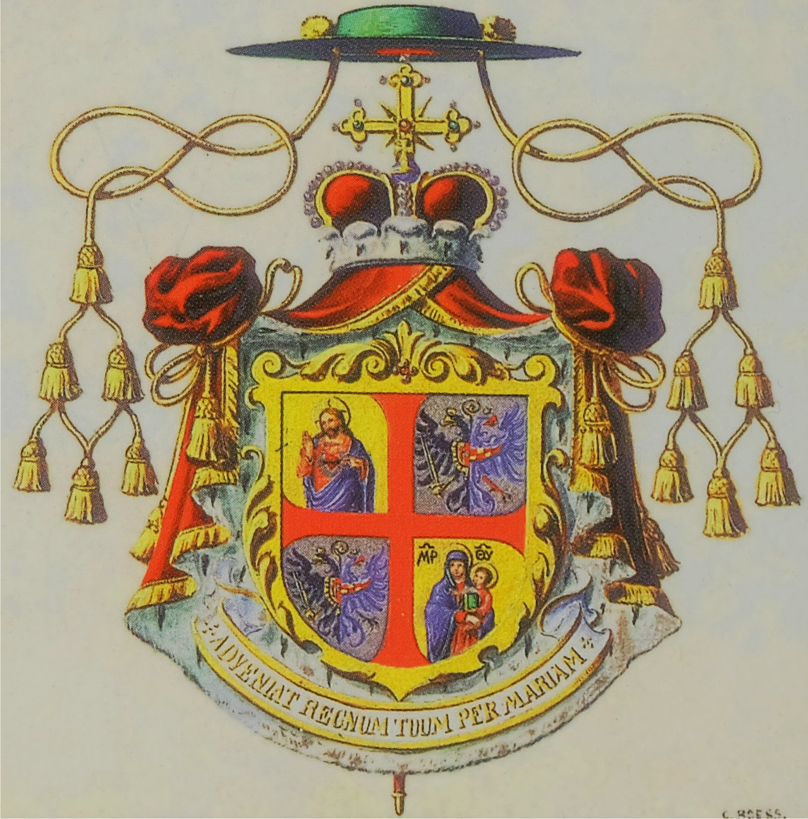 herald of slovene (arch)bishop Anton Bonaventura Jeglič